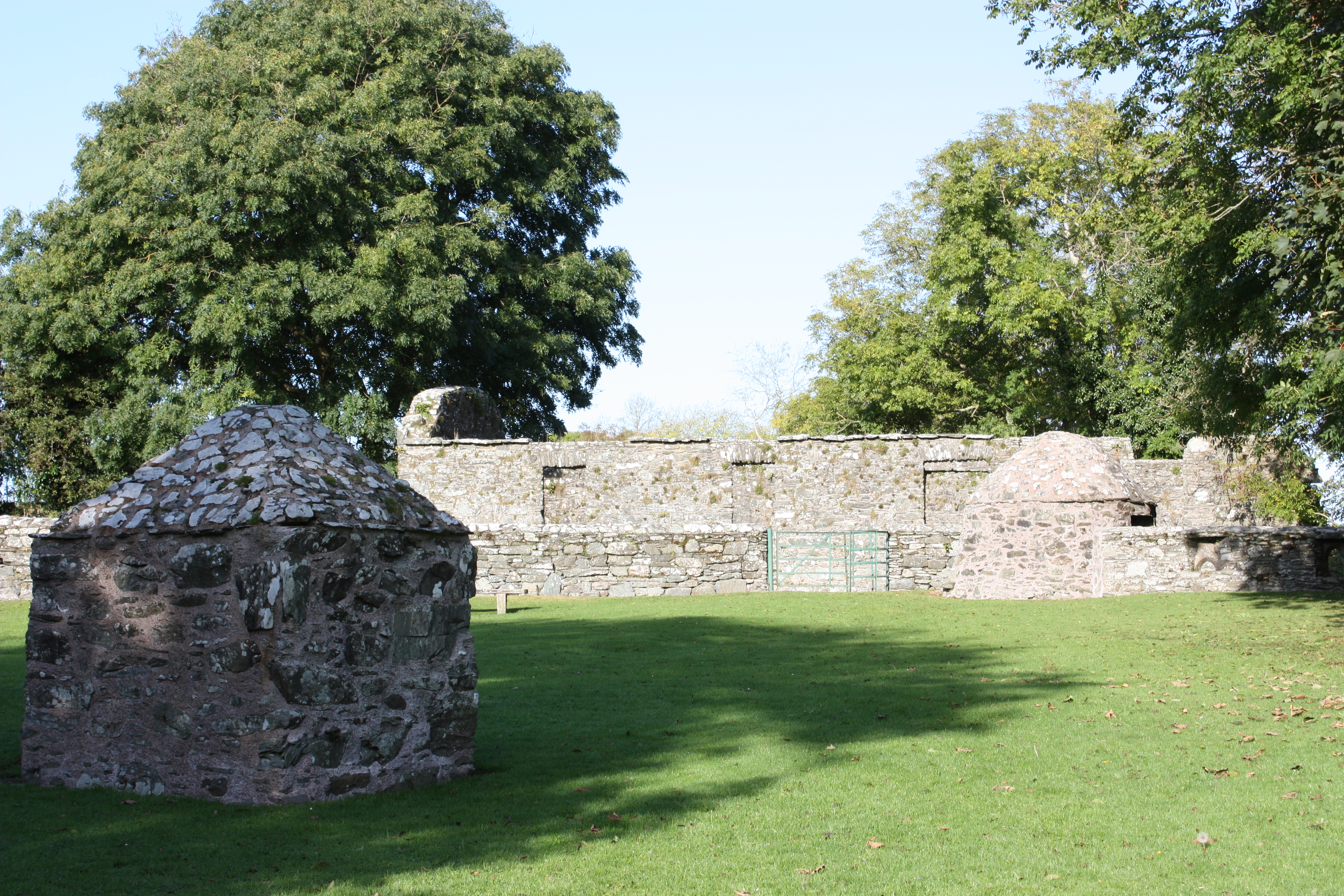 Wells and church, Struell Wells, Downpatrick, County Down, Northern Ireland, October 2009